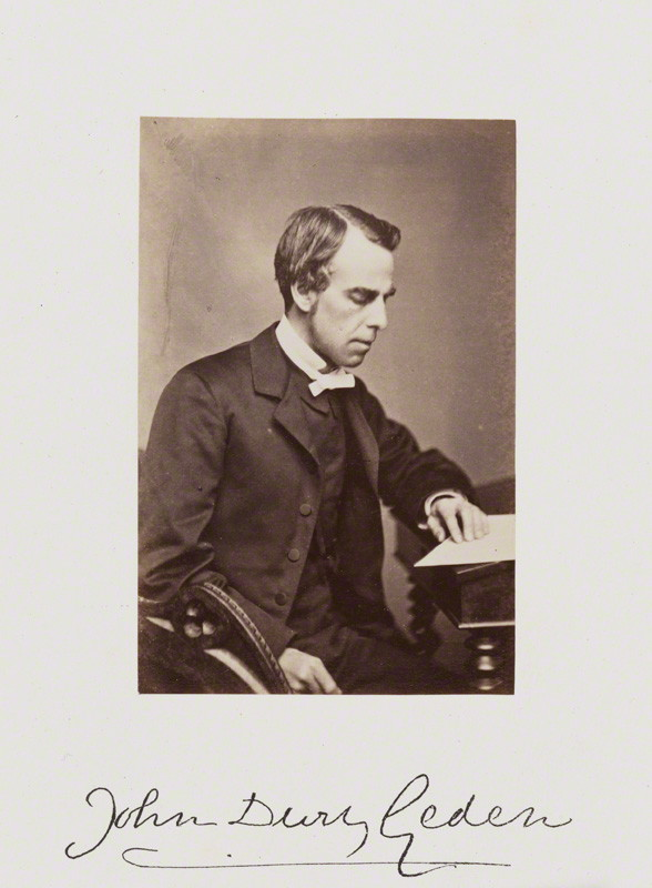 Portrait of John Dury Geden (1822–1886), English Wesleyan minister.